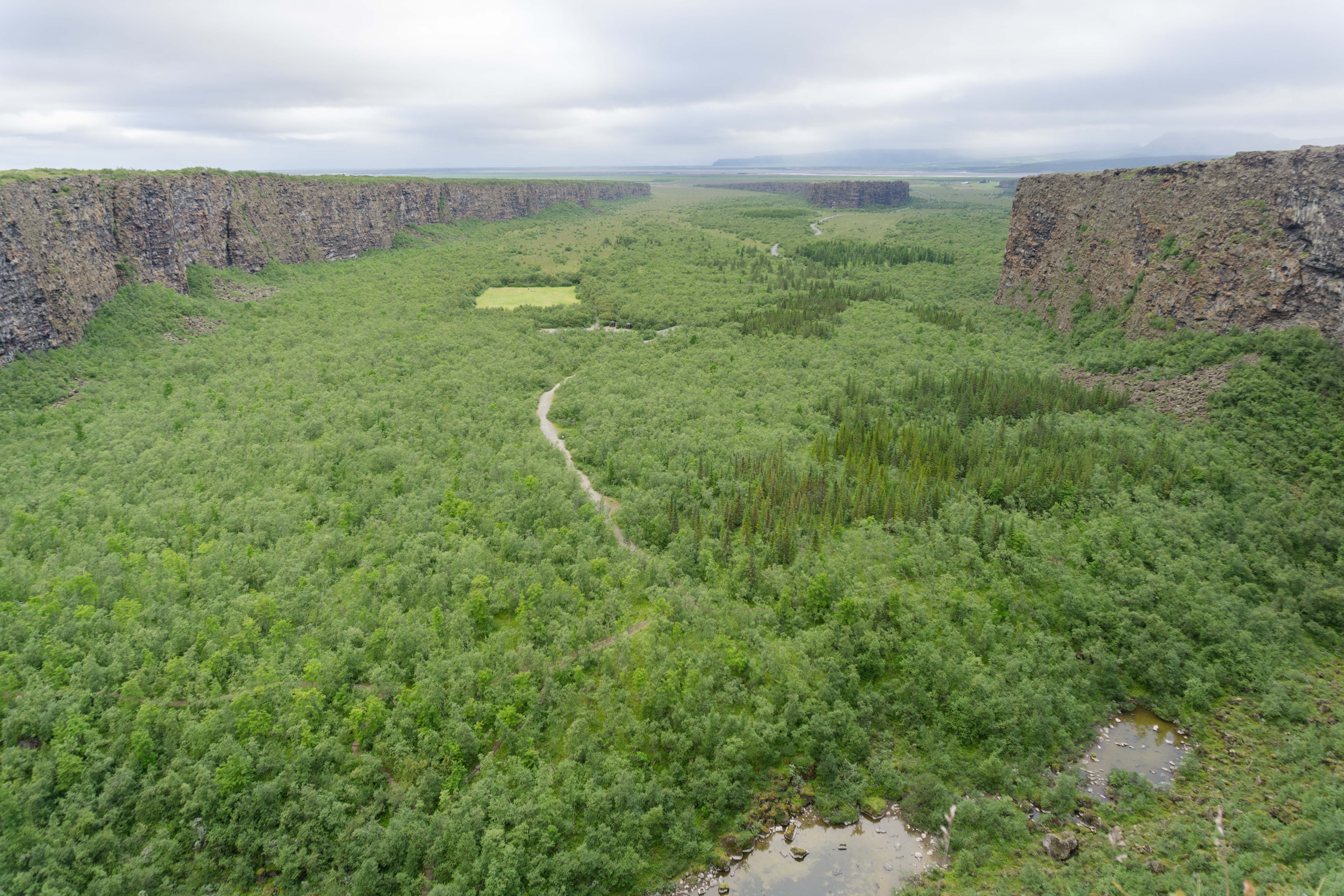 View from the top of Ásbyrgi canyon. Hiking trail from Dettifoss to Ásbyrgi, Iceland